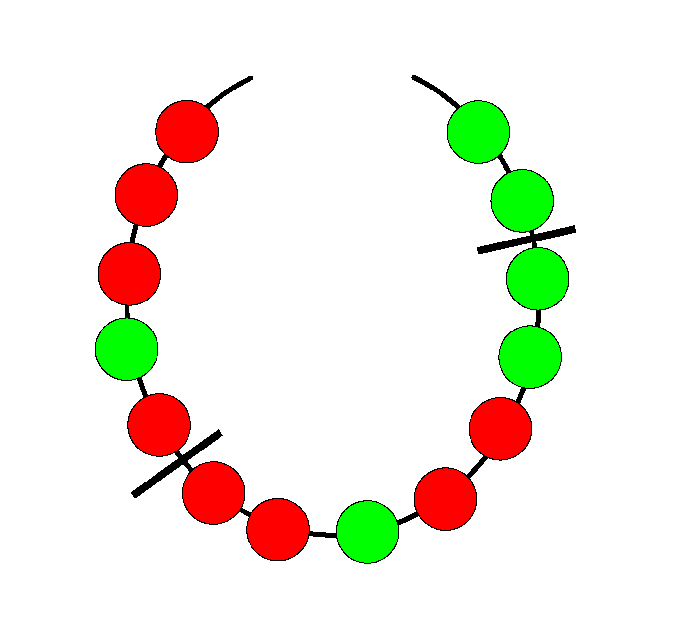 updated version of Necklace.png